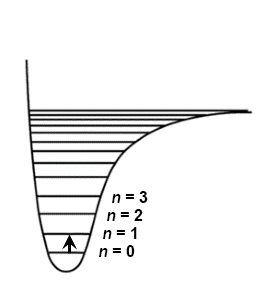 IR transitions